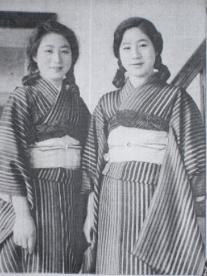 寺尾正・文姉妹(Terao Sisters, Japanese sprinter :Right: elder Kimi,50m Japanese national record holder. Left: younger Fumi,100m Japanese national record holder in 1920's)